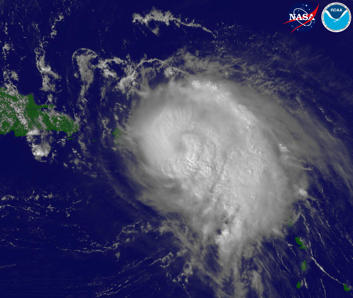 Hurricane Georges making landfall on Puerto Rico on September 21, 1998 (Cropped)